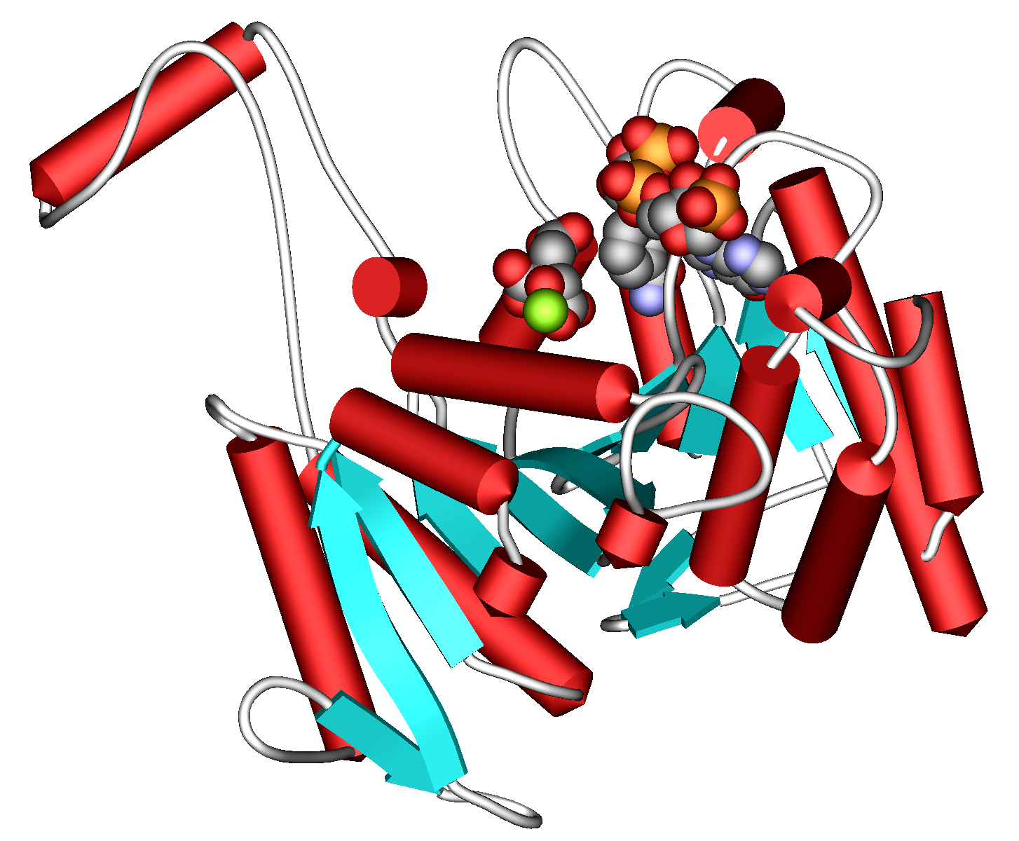 3d tube model of isocitrate dehydrogenase (NADP+) from E.coli after PDB 1AI3, with NADP+ and isocitrate:magnesium spacefilling. Ref.: Mesecar AD, Stoddard BL, Koshland DE (July 1997). "Orbital steering in the catalytic power of enzymes: small structural changes with large catalytic consequences". Science (journal) 277 (5323): 202–6. PMID 9211842.